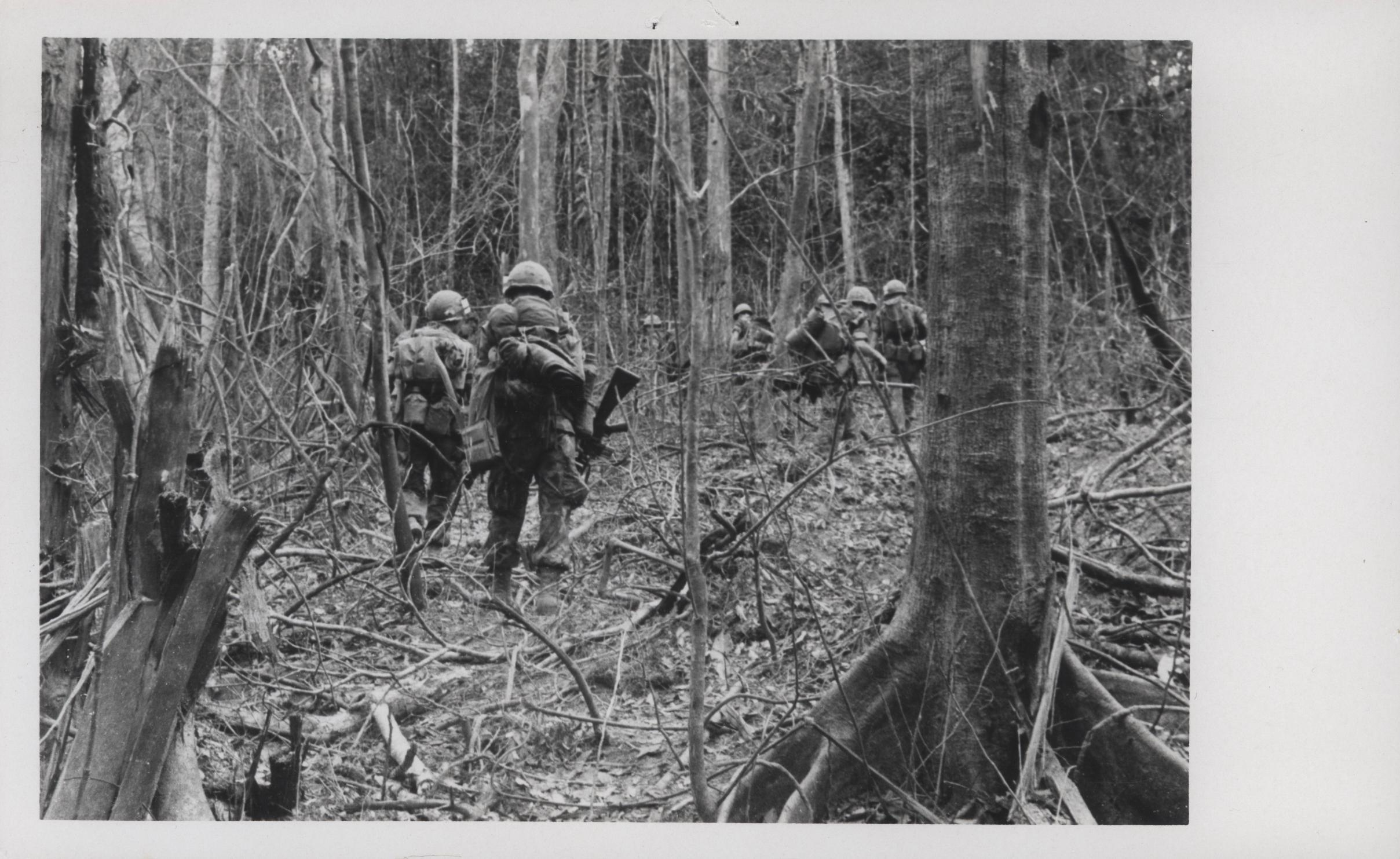 "Hard Climb: Marines of M Company, 3d Battalion, 26th Marines [M/3/26] participating in Operation Oklahoma Hills, find the going rough in deeply wooded ‘Happy Valley’. Terrain like this provided a challenge to the marines who carved a fire support base and landing zone out of the dense jungle are 20 miles west-southwest of Da Nang." From the Jonathan F. Abel Collection (COLL/3611), Marine Corps Archives & Special Collections OFFICIAL USMC PHOTOGRAPH